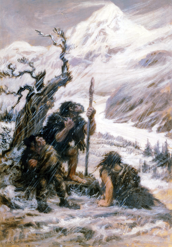 Snowbound, Oil on canvas, 26 x 20 in. On extended loan to the Staten Island Museum, New York City